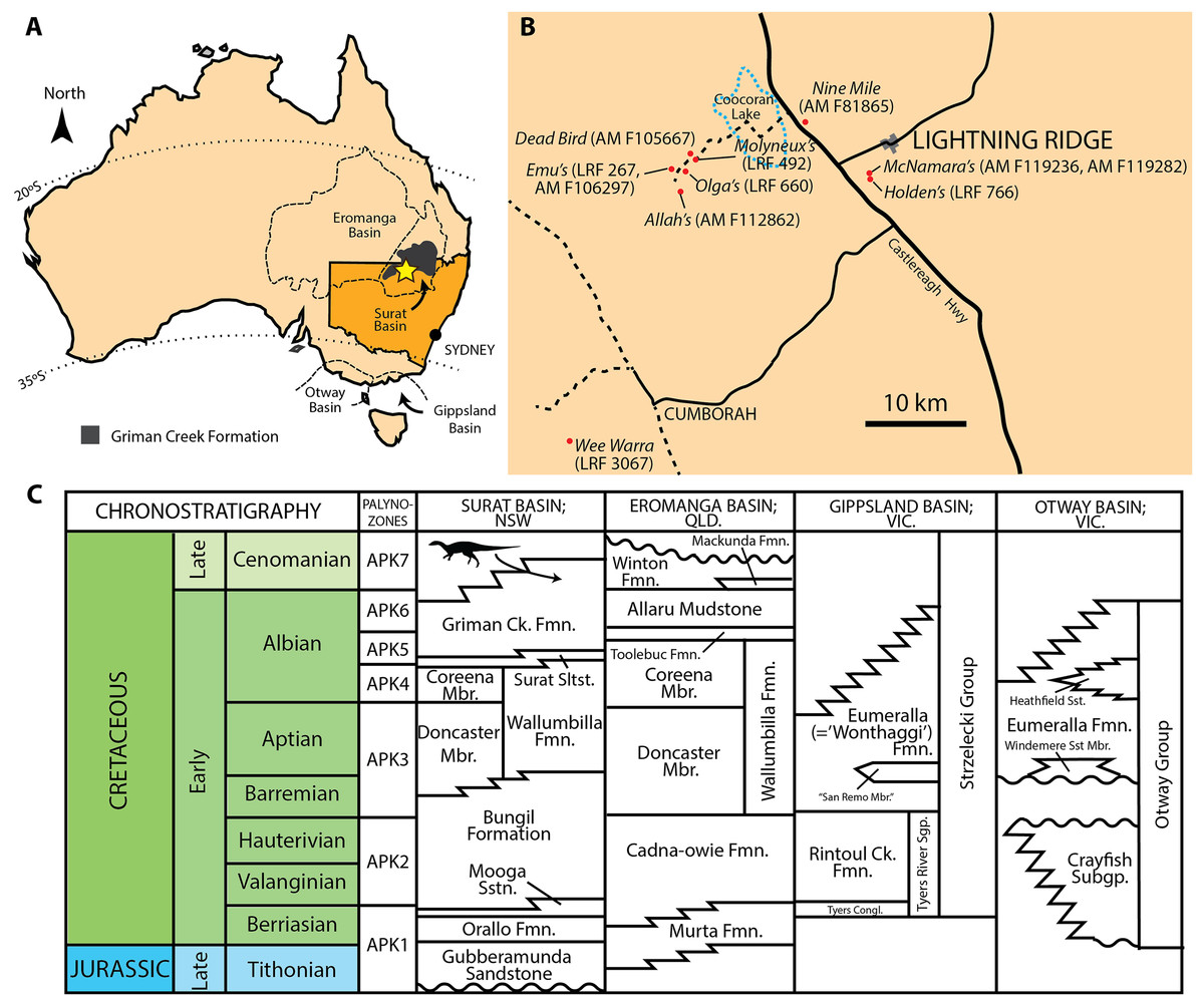 (A) Present day map of Australia with the town of Lightning Ridge indicated by the star. (B) Regional map of the Lightning Ridge region showing localities (where known) for specimens described in this text. Sealed (solid black lines) and unsealed roads (dashed lines) are indicated. The ephemeral Coocoran Lake is marked with a dotted blue line. (C) Correlative stratigraphy of the major Cretaceous depositional basins and geological units discussed in this study. The ornithopod icon and arrow indicate the approximate level of the Griman Creek Formation from which the current material pertains. Informal units are in quotation marks. Maps in (A) and (B) redrawn and modified from Bell et al. (2016) and Opal Fields—Lightning Ridge Region map produced by the NSW Department of Mineral Resources, respectively. Stratigraphy based on Toslini, McLoughlin & Drinnan (1999) and Cook, Bryan & Draper (2013). Ornithopod silhouette created by Caleb M. Brown and used under the Creative Commons Attribution-ShareAlike 3.0 Unported license.